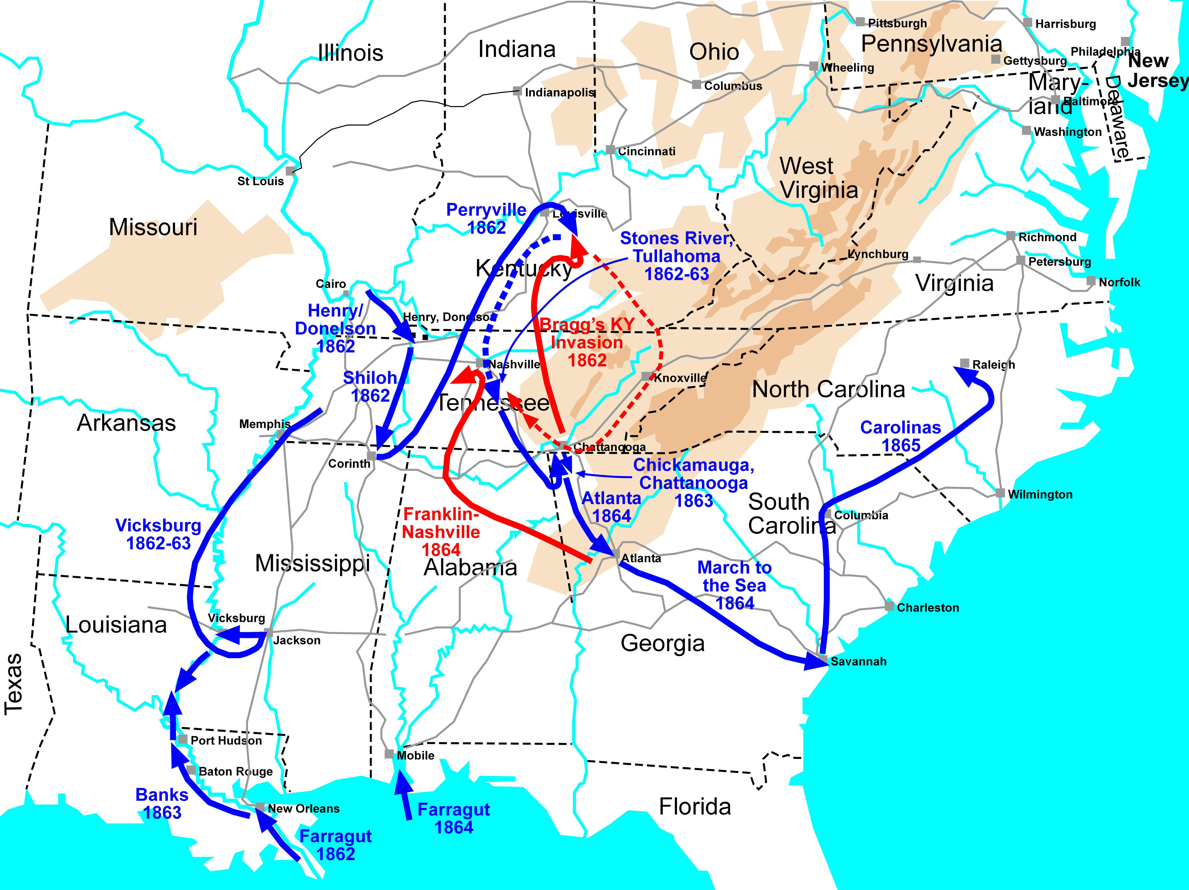 Map of Western Theater of the American Civil War, Theater Overview. Drawn by Hal Jespersen in Macromedia Freehand. Source file available in (The reason this is a JPEG is that I have found that PNG versions of this are very large and not as clear when displayed in browsers.)